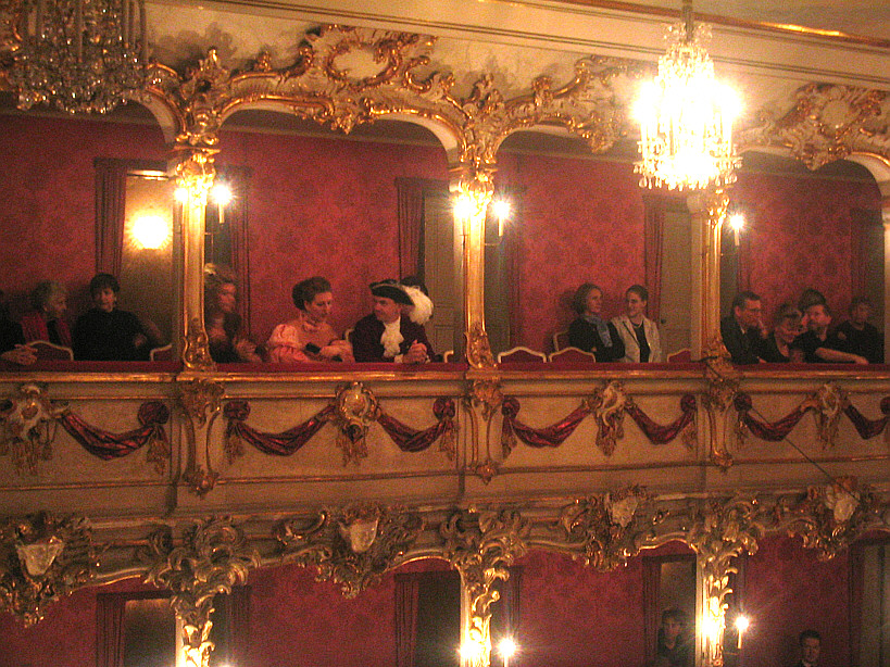 Munich, Germany: Cuvilliés-Theater (auditorium detail)